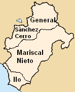 Provinces of the Moquegua region in Peru (Map)